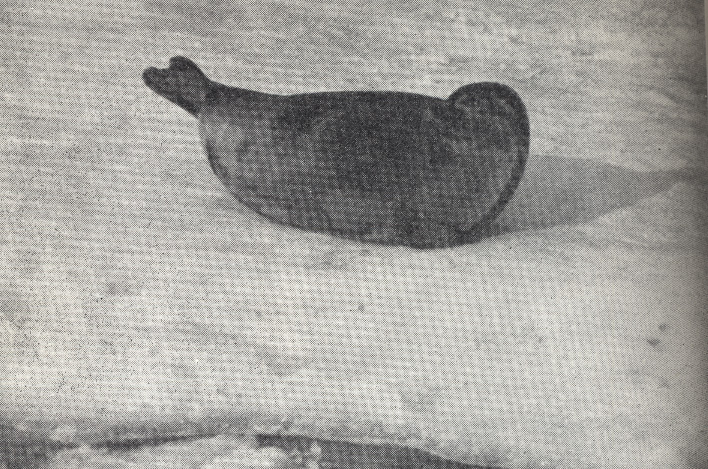 An old photograph of a Saimaa ringed seal (Pusa hispida saimensis)